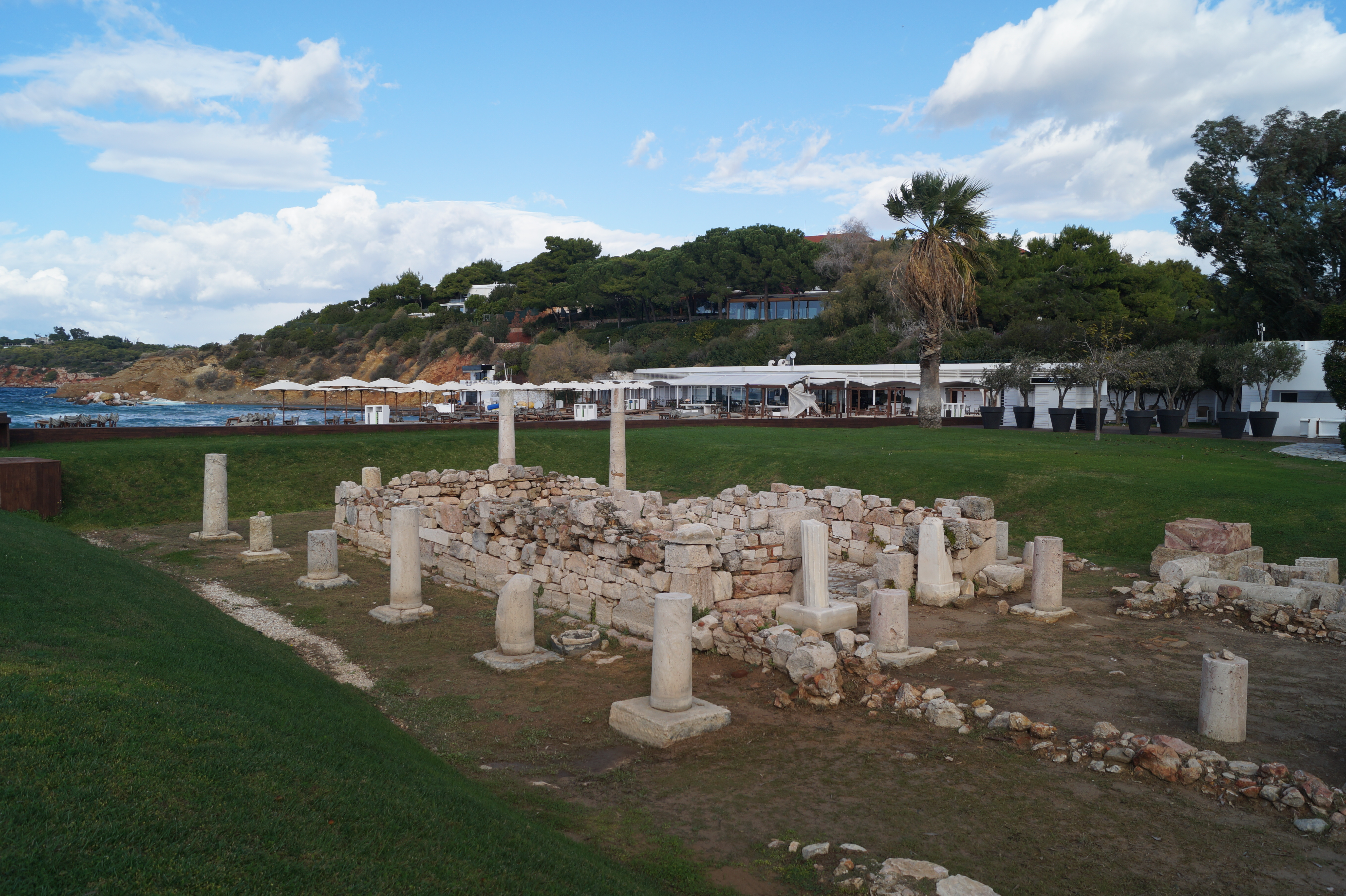 Vouliagmeni, Athens, Greece: South-east corner of the Temple of Apollo Zoster.